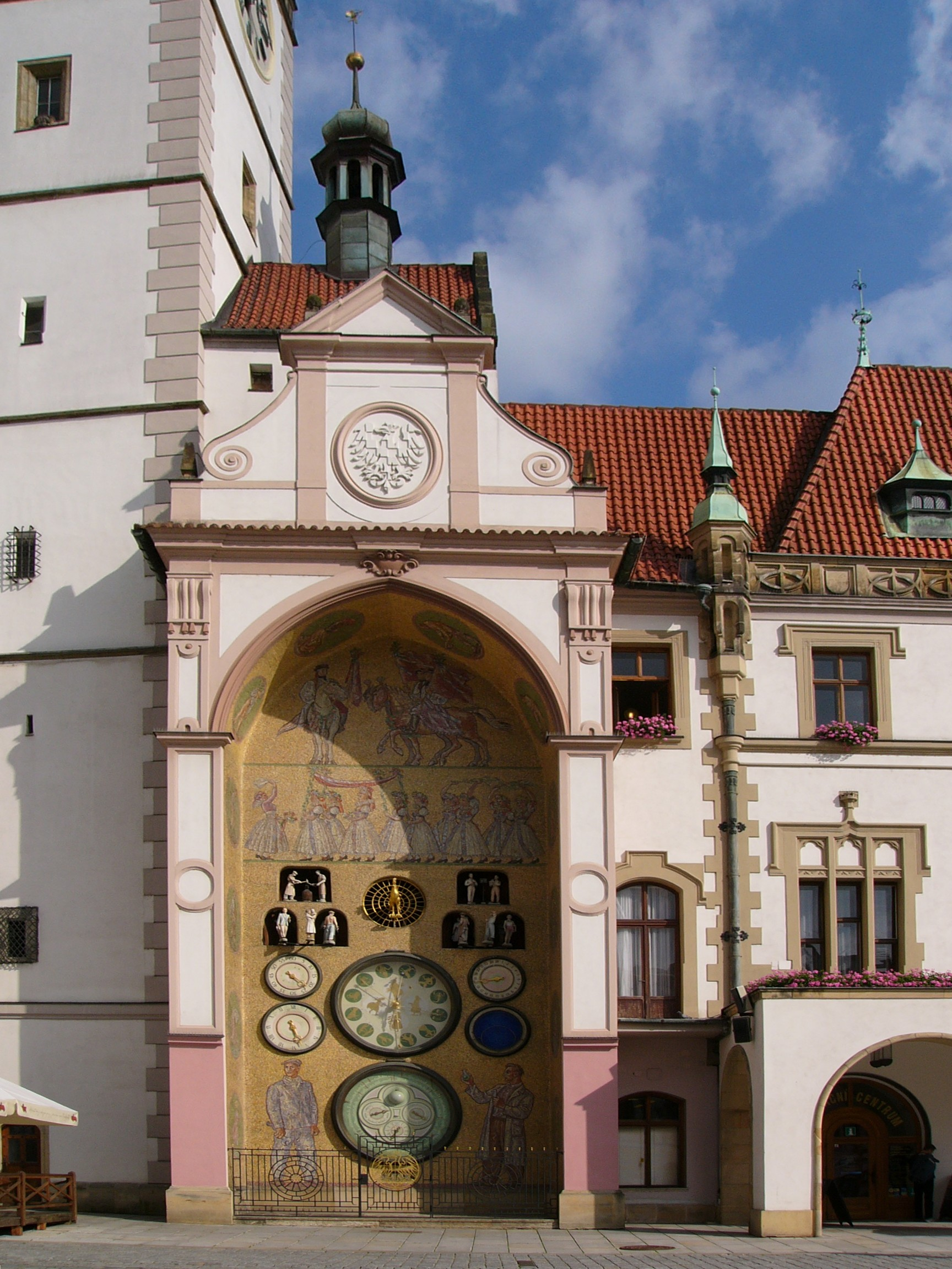 Astronomical clock at town hall in Olomouc (Czech Republic).